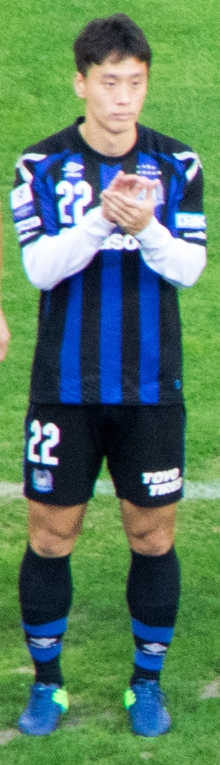 Oh Jae Suk